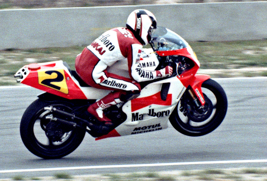 Wayne Rainey driving out of turn 3 at the 1990 Laguna Seca GP. Back in the days when the 500 smokers pumped out 180 bhp. And bikes were a lot closer in capability..